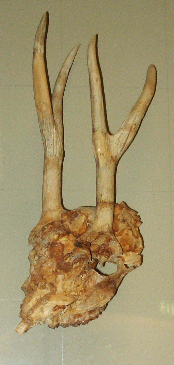 fossil of procervulus